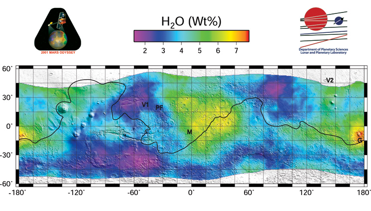 This map shows concentration estimates of equivalent-weight water found in the regions around the equator of Mars. The map is based upon gamma ray data collected for the element hydrogen. Regions of high hydrogen concentration are shown in red while regions of low hydrogen concentration are shown in blue. The highest equatorial concentrations of hydrogen are found around and to the east of Apollineris (left and right center of map) and centered around Arabia Terra (center of map). This hydrogen may be in the form of hydrated minerals or buried ice deposits, but the former is more likely. The white sections at the top and bottom of the map represent regions of the planet with high hydrogen concentration due to large amounts of buried water ice; see July 2004 updates for maps of these regions. The locations of the five successful lander missions are marked: Viking 1 (VL1), Viking 2 (VL2), Pathfinder (PF), Spirit at Gusev (G), and Opportunity at Meridiani (M).